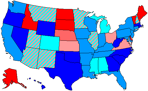 Summary of party control of U.S. house seats in the 95th United States Congress following the 1976 election. Stripes indicate a tie between two or more parties. Legend: 80.1-100% Democratic seat majority 60.1-80% Democratic seat majority 60% or less Democratic seat plurality 60% or less Republican seat plurality 60.1-80% Republican seat majority 80.1-100% Republican seat majority